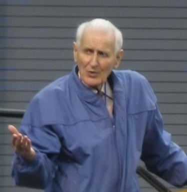 Dr. Jack Kevorkian's cropped image